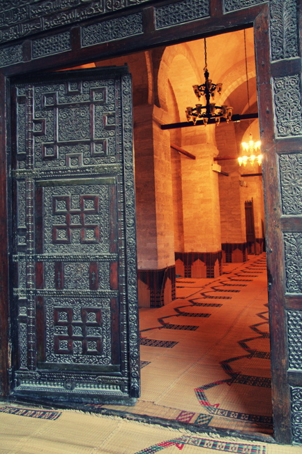 Great Mosque of Sfax - Prayer Hall Door